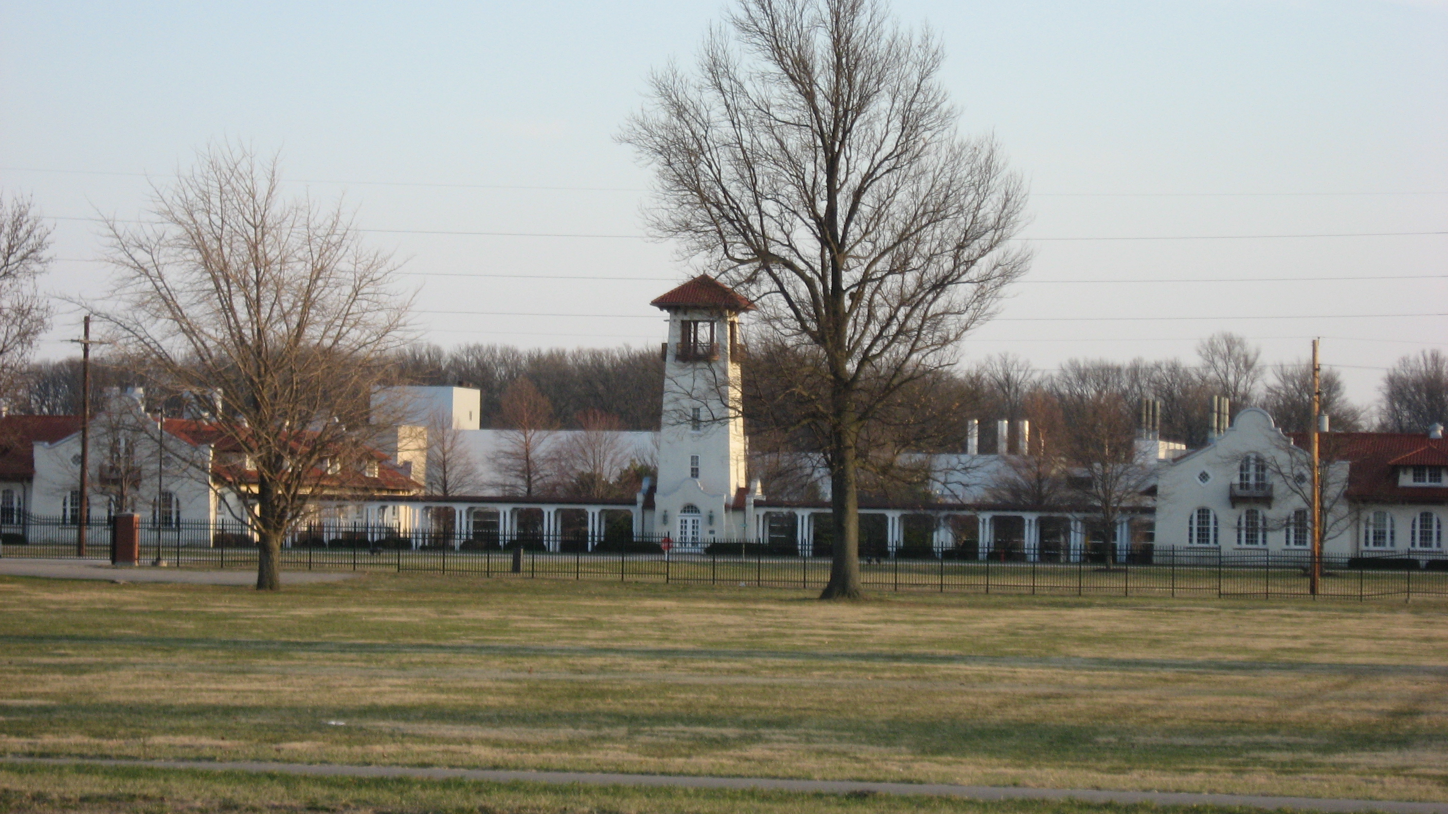 Roadside view of the Lilly Biological Laboratories, located along U.S. Route 40 on the western edge of Greenfield, Indiana, United States. Built by Eli Lilly and Company in 1913, the complex is listed on the National Register of Historic Places.